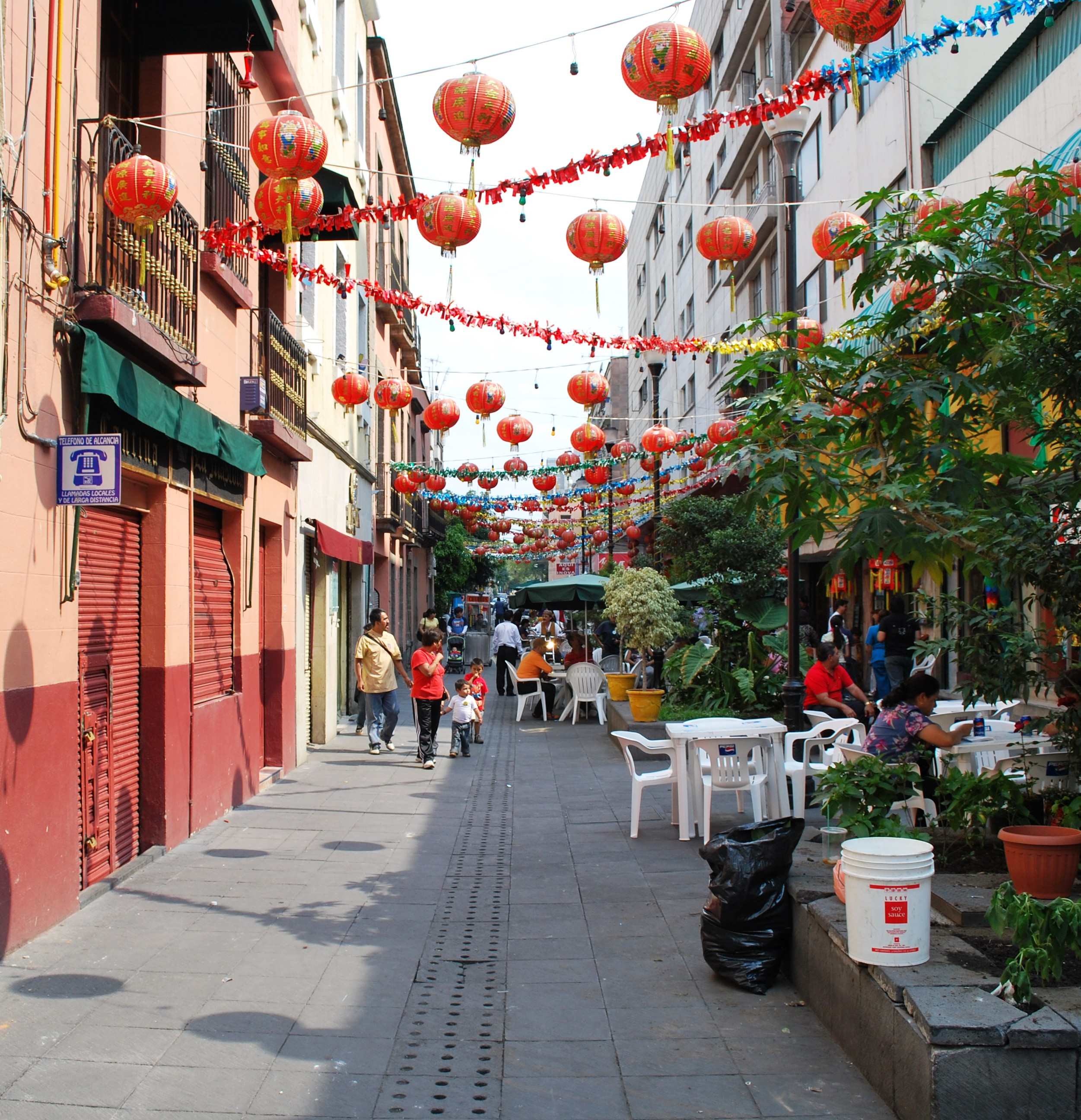 Street scene in the Chinatown of Mexico City.